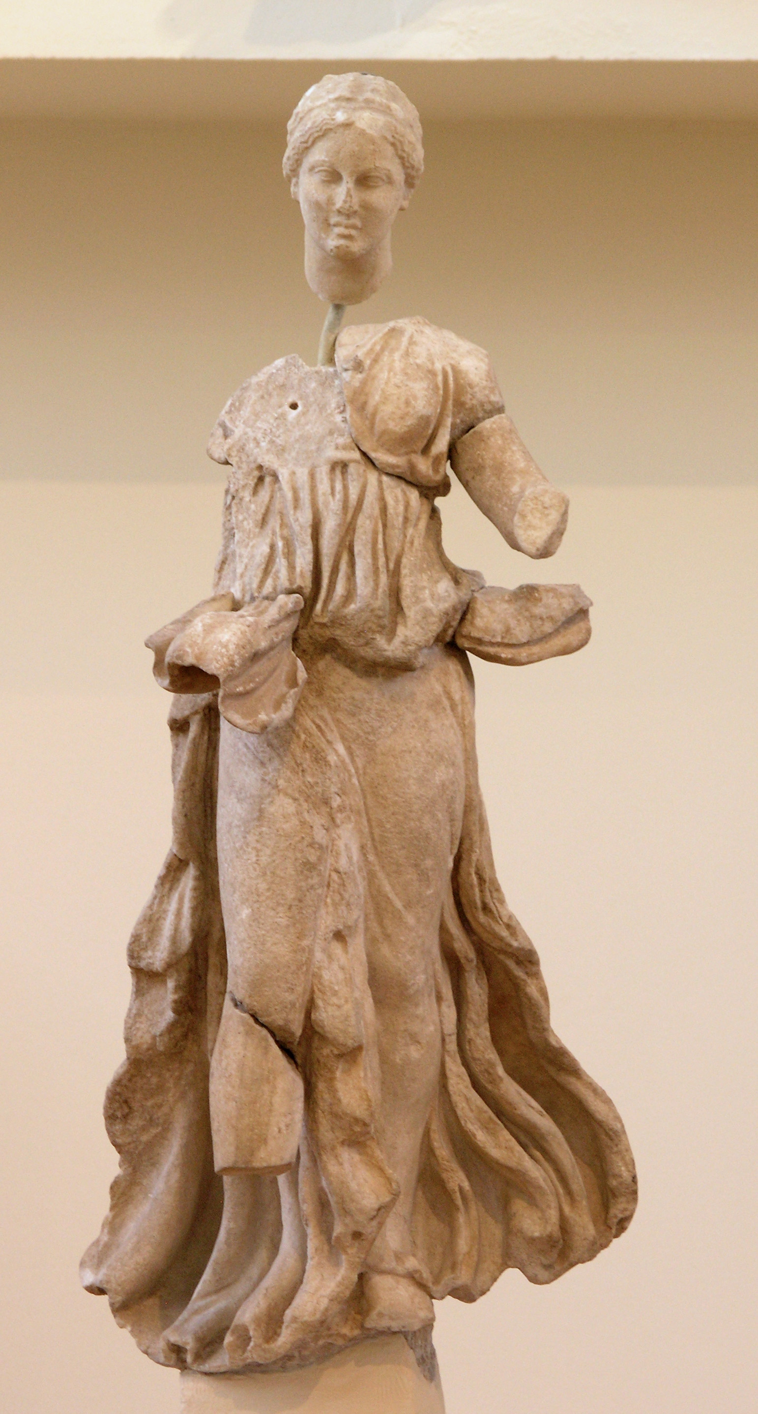 Statuette of Nike. Parian marble. Found at Epidauros. The figur was the left akroterion on the west pediment of the temple of Artemis. Nike flies forward advancing her right leg. The wings were made of a separate piece of marble and set in the sockets preserverd in the shoulders of the figure. Late 4th c. BC.